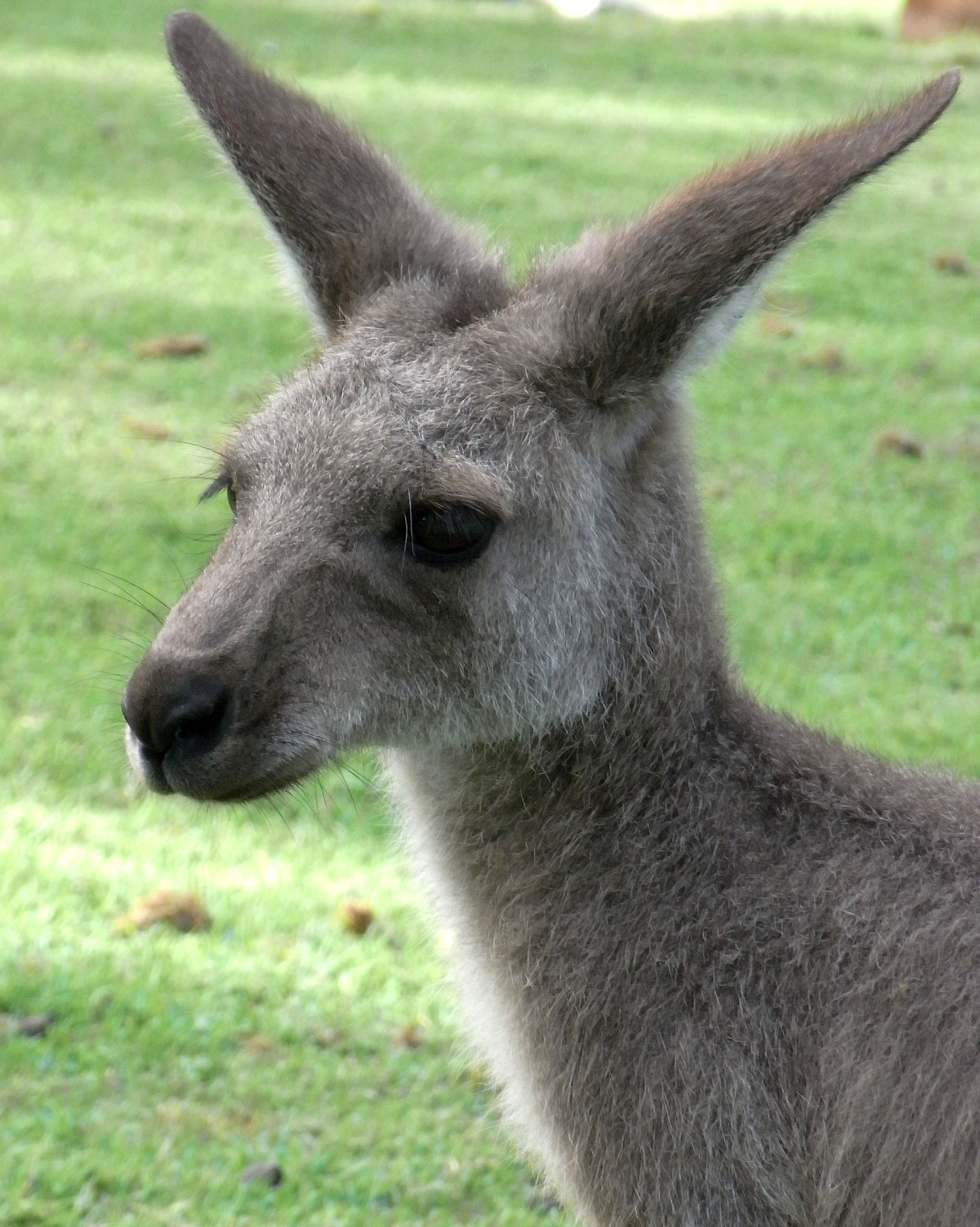 Young Eastern Grey Kangaroo (Macropus giganteus) at Lone Pine Koala Sanctuary, Brisbane, Australia.